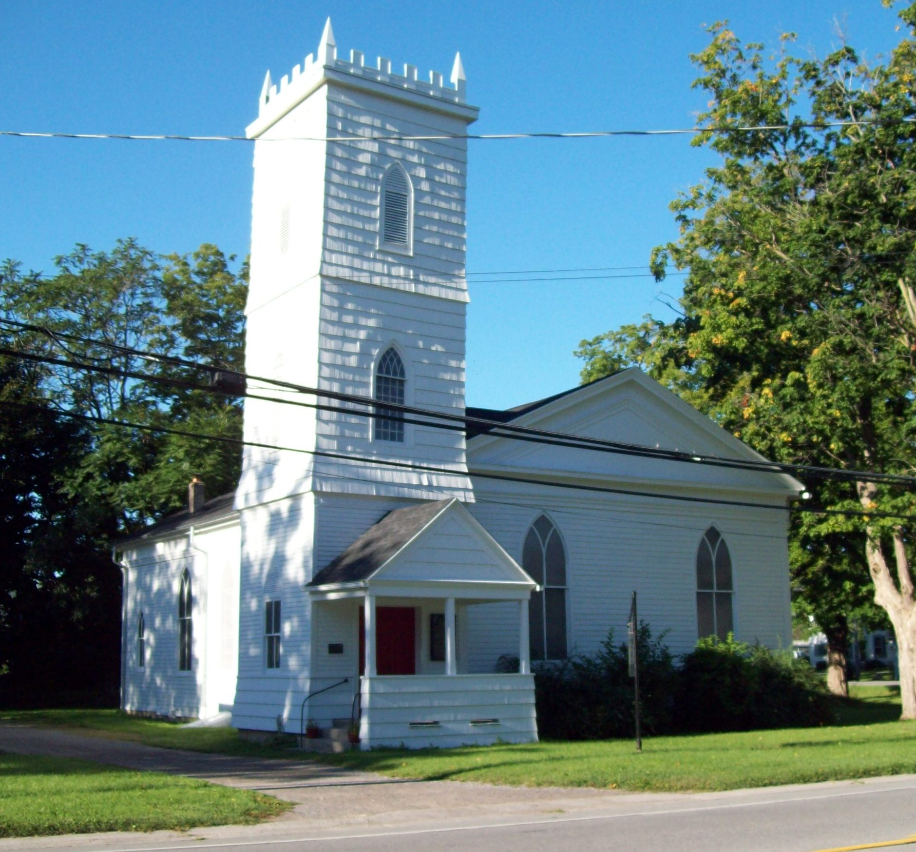 Stafford Village Four Corners Historic District - Episcopal Church, August 2010